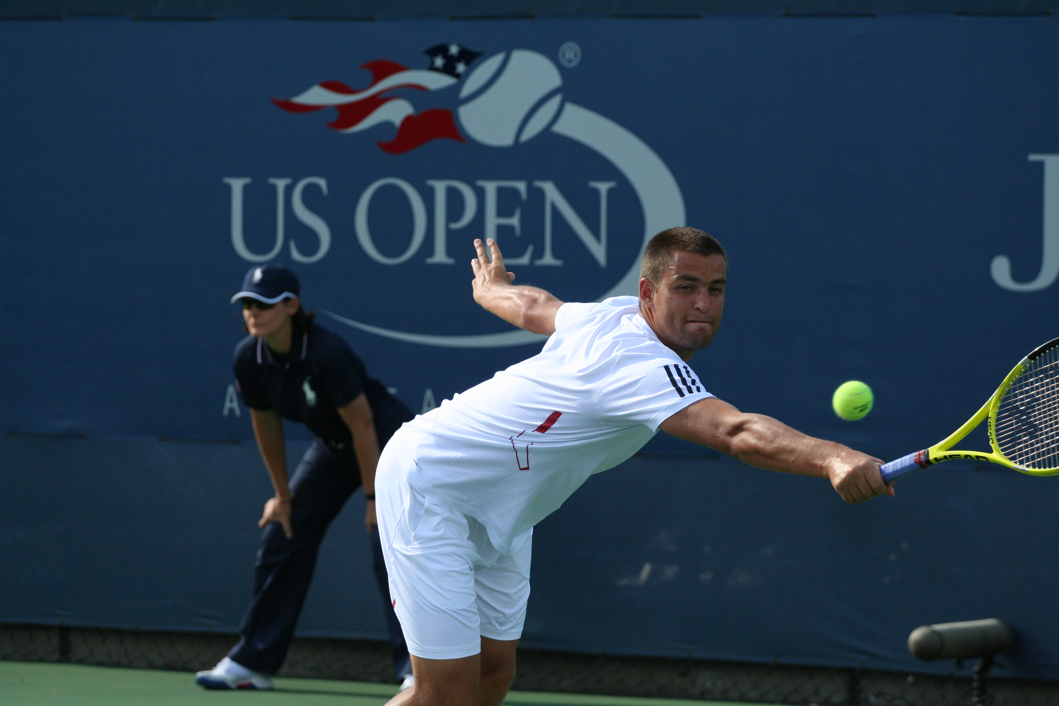 Mikhail Youzhny at the 2010 US Open